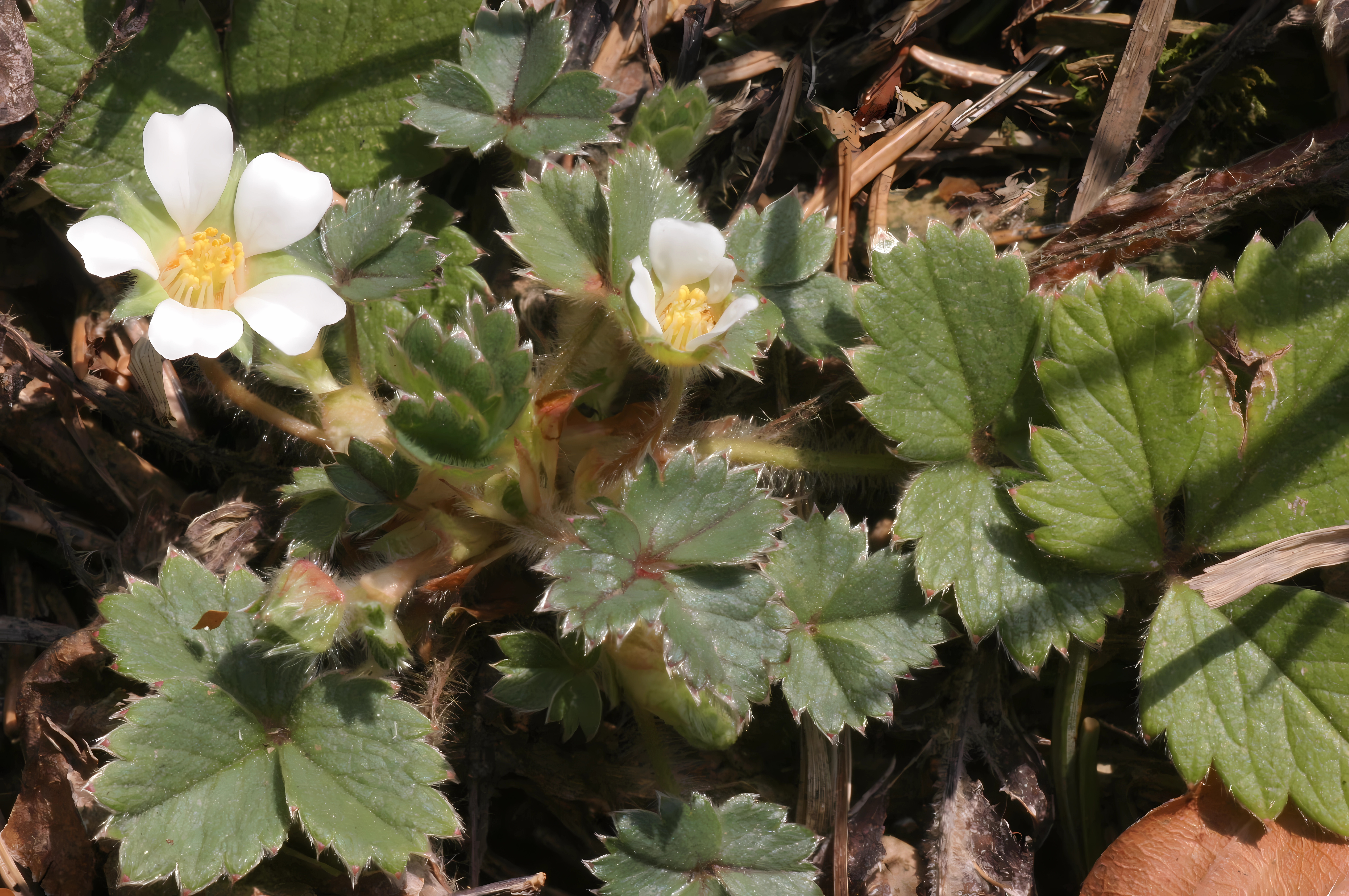 Potentilla sterilis